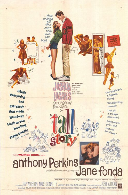 Poster for the film Tall Story